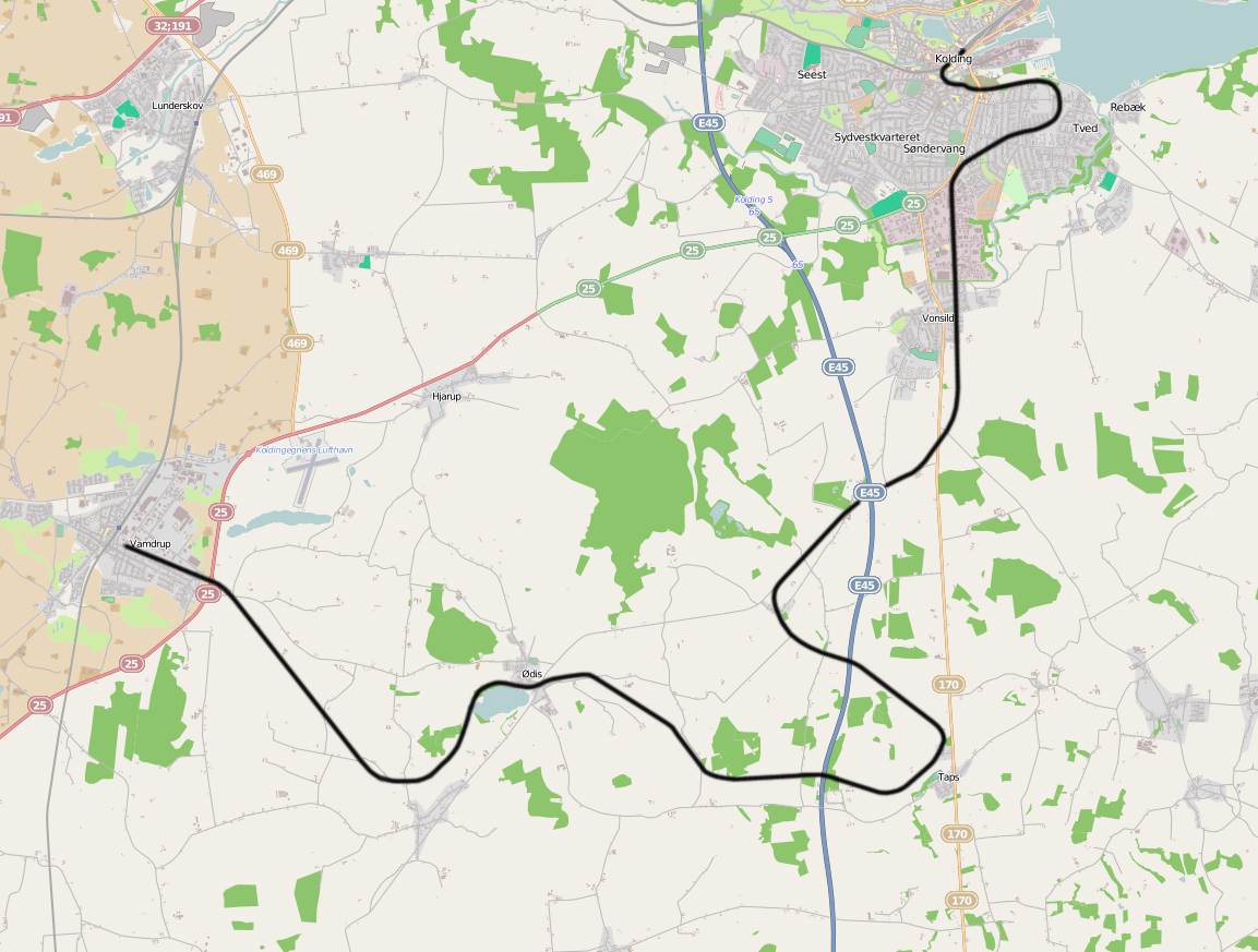 Railway line Kolding - Vamdrup